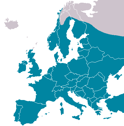 Where can you find the Blue Tit in Europe.